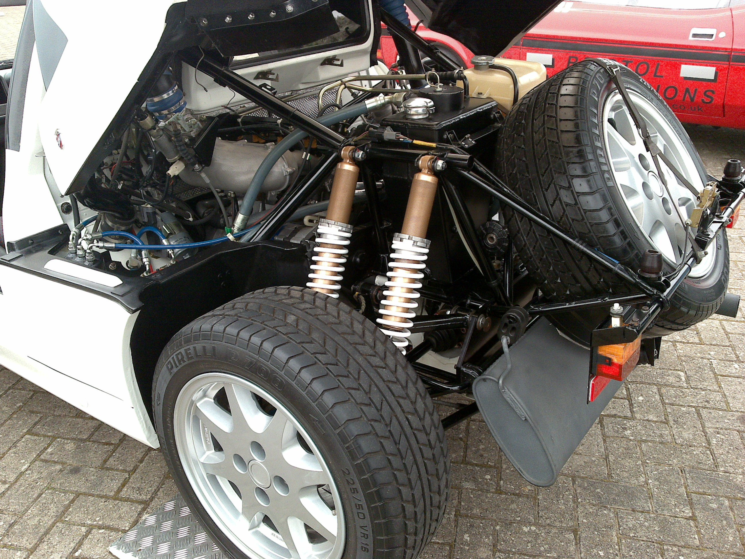 Imaculate inside and out...